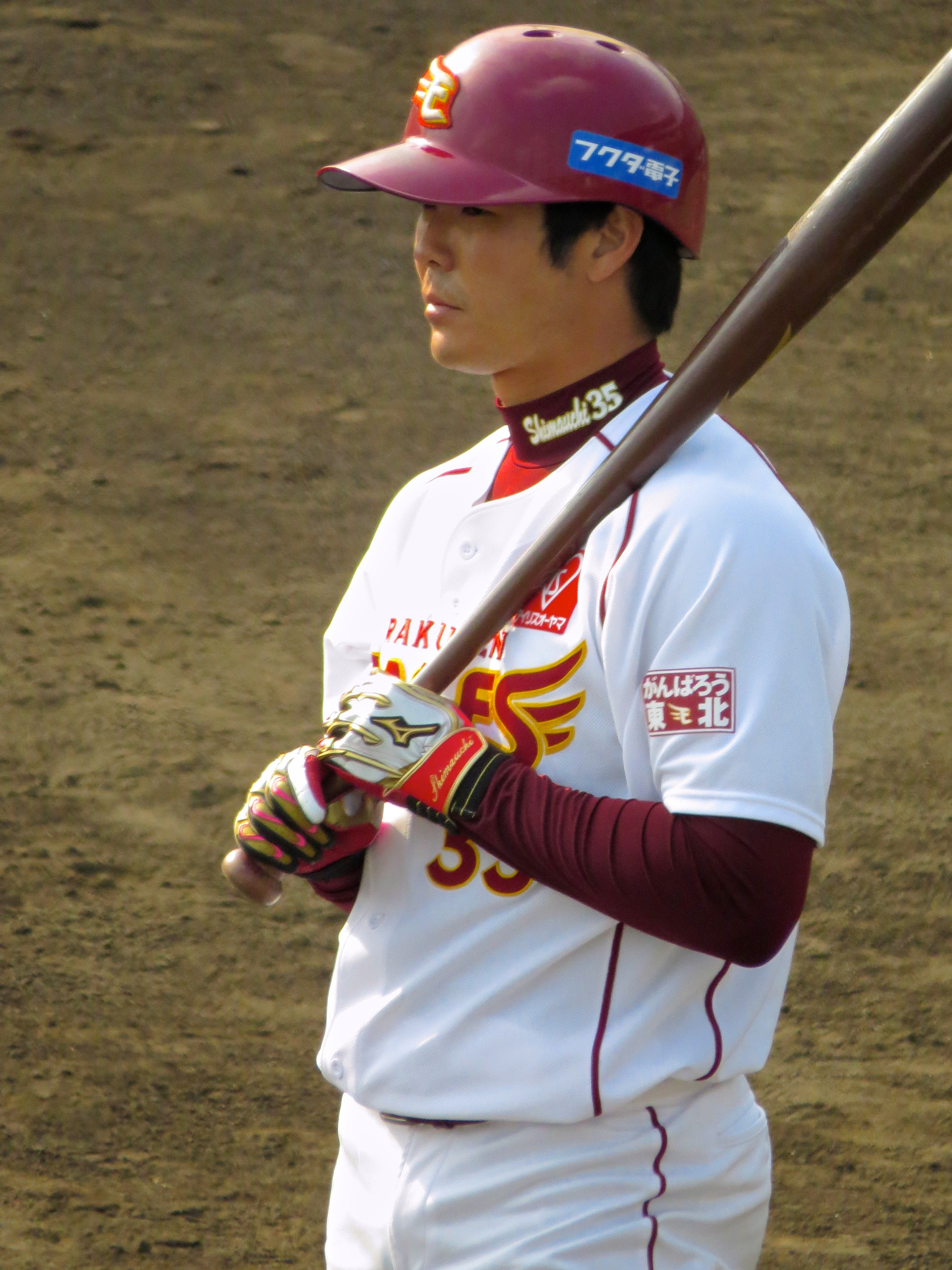 Hiroaki Shimauchi, outfielder of the Tohoku Rakuten Golden Eagles, at Saitama Municipal Urawa Baseball Stadium